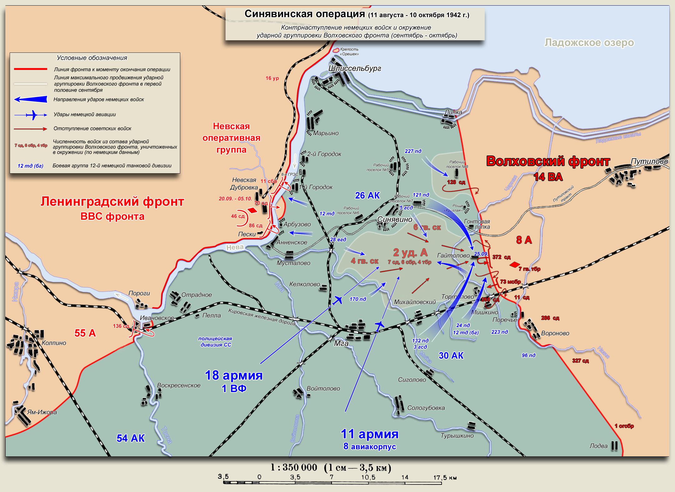 Sinyavino Offensive (1942). German counter-offensive.